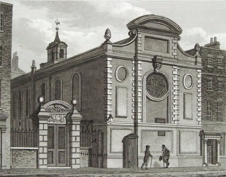 An etching of Christopher Wren's church of St. Stephen's, Coleman Street in the City of London. Print by J.Wise after J.Coney. Published by J.Booth London, 1819 for "Architectura Ecclesiastica London"